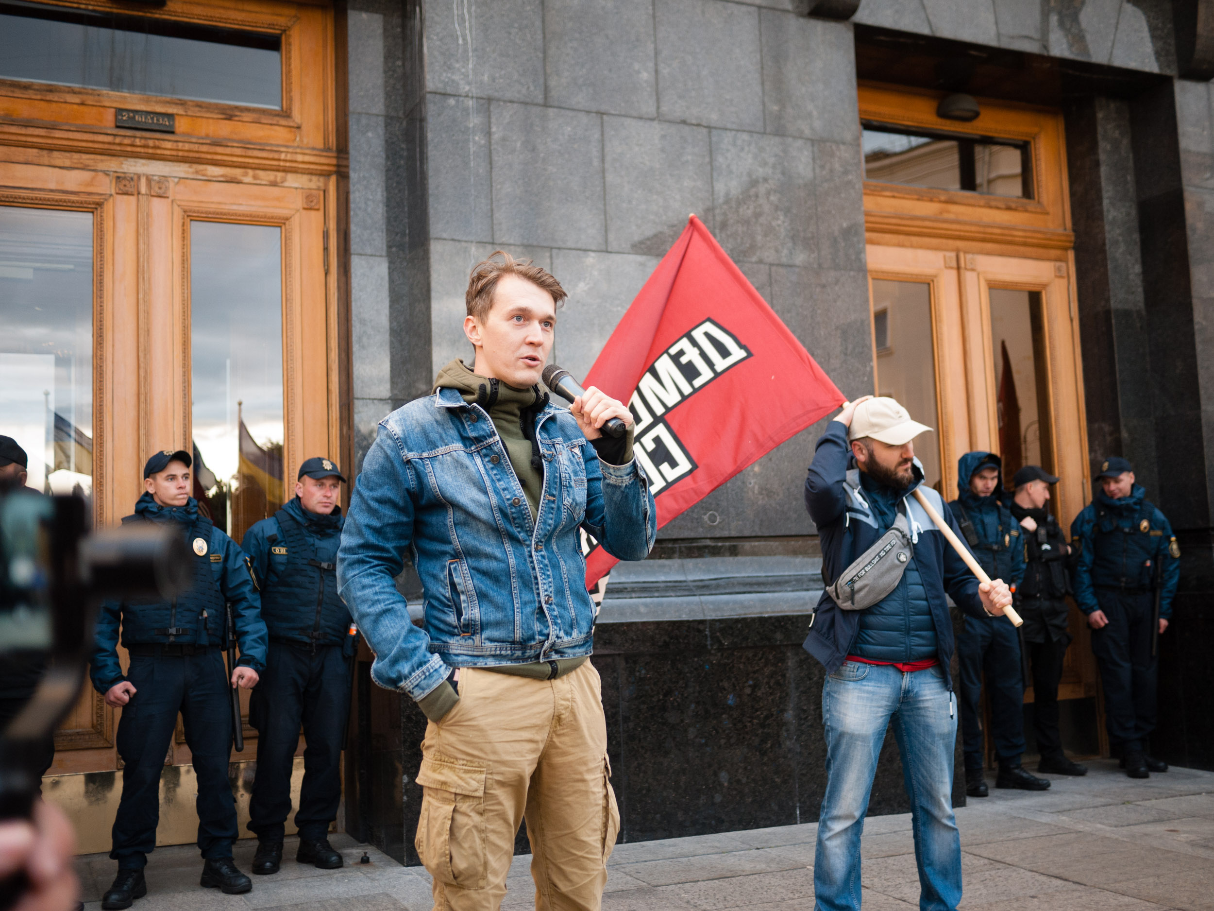 Yuriy Gudimenko, Ukrainian blogger and politician, at the rally against Ihor Kolomoisky, near President Office, Kyiv, Bankova Str.